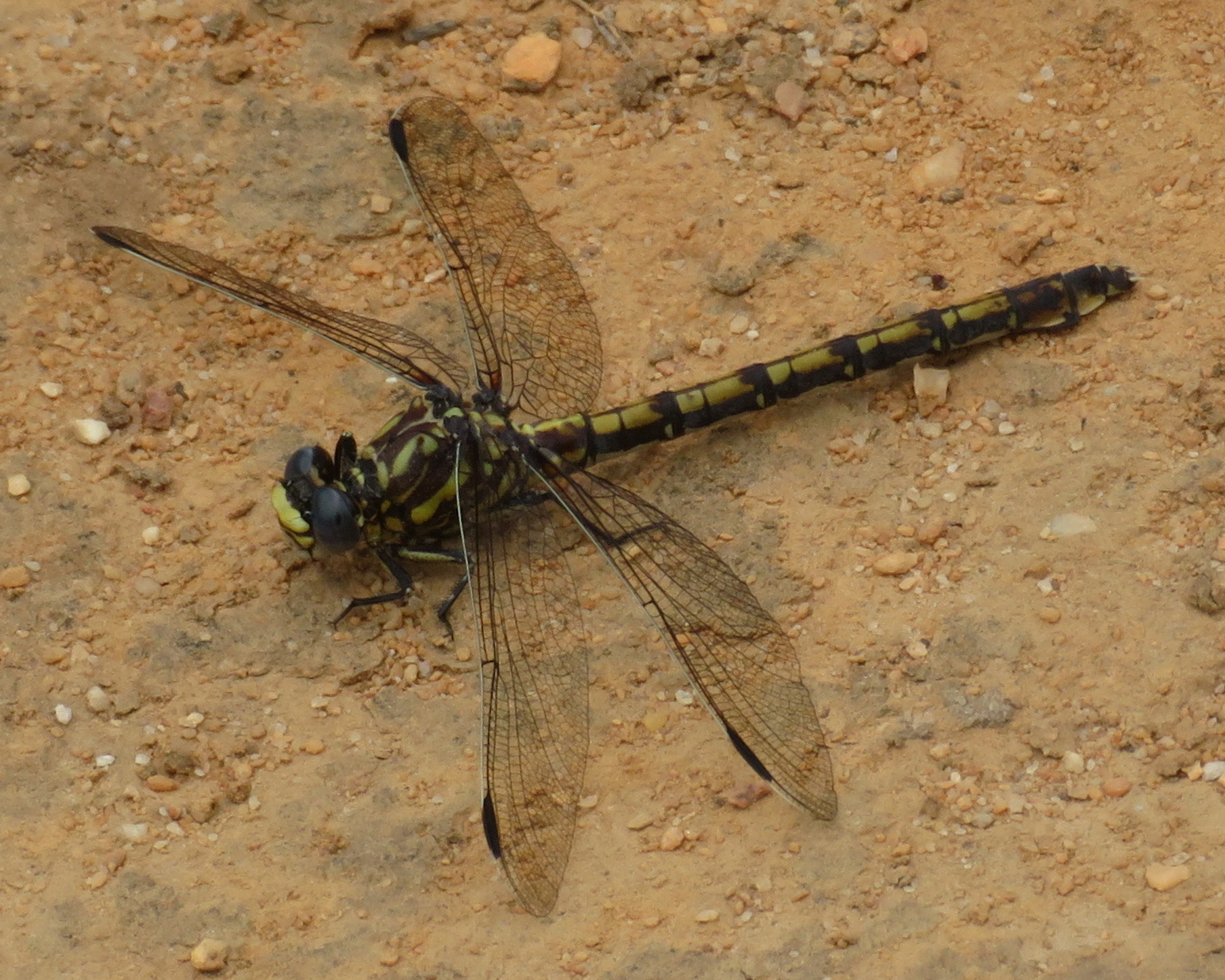 Cape Thorntail (Ceratogomphus triceraticus)